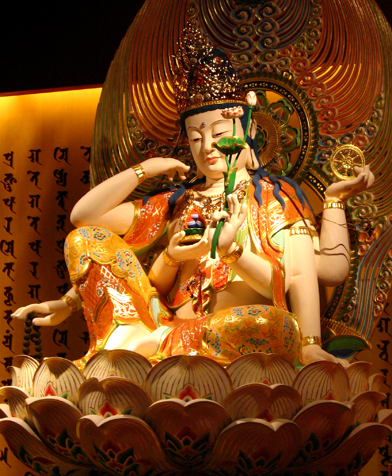 Avalokitesvara Bodhisattva statue at Cintamanicakra Avalokitesvara Hall. Sanskrit passage written with the Siddham script in the background. Buddha Tooth Relic Temple, Singapore.